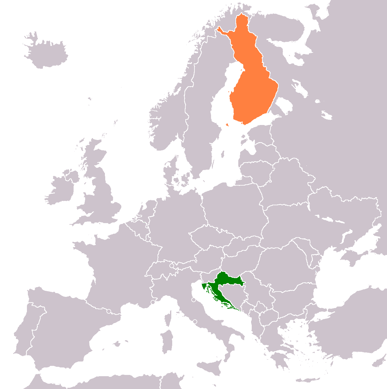 Croatia-Finland locator map.